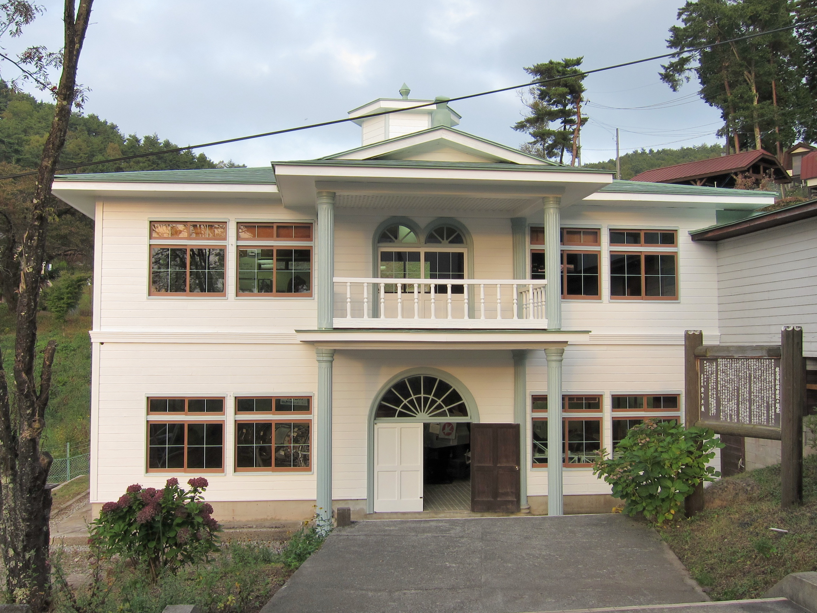 Photograph of Hijiri Museum, aviation museum exterior. address 5889-1 Ohijiri, Omi Village, Higashichikuma District, Nagano Prefecture, Japan photo date October 16, 2010